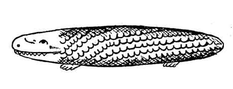 Crude sketch of a Stollwurm (Stollenwurm). Otherwise known as Tatzelwurm, as reprinted in Heuvelmans 2014, p. 10.[1] The sketch initially appeared in Schultes, G. (1835), “Etwas über den Bergstutz oder Stollwurm in den Alpen”, in Taschenbuch für Natur-, Forst und Jagdfreunde auf das Jahr 1836